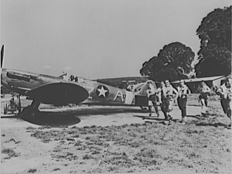 USAAF pilots of the 309th Fighter Squadron, 31st Fighter Group, running to their Supermarine Spitfire Mk VB planes in Great Britain in 1942. The Spitfire "WZ-A" was the personal aircraft of Major Harrison Reed Thyng, later a brigadier general in the USAF.